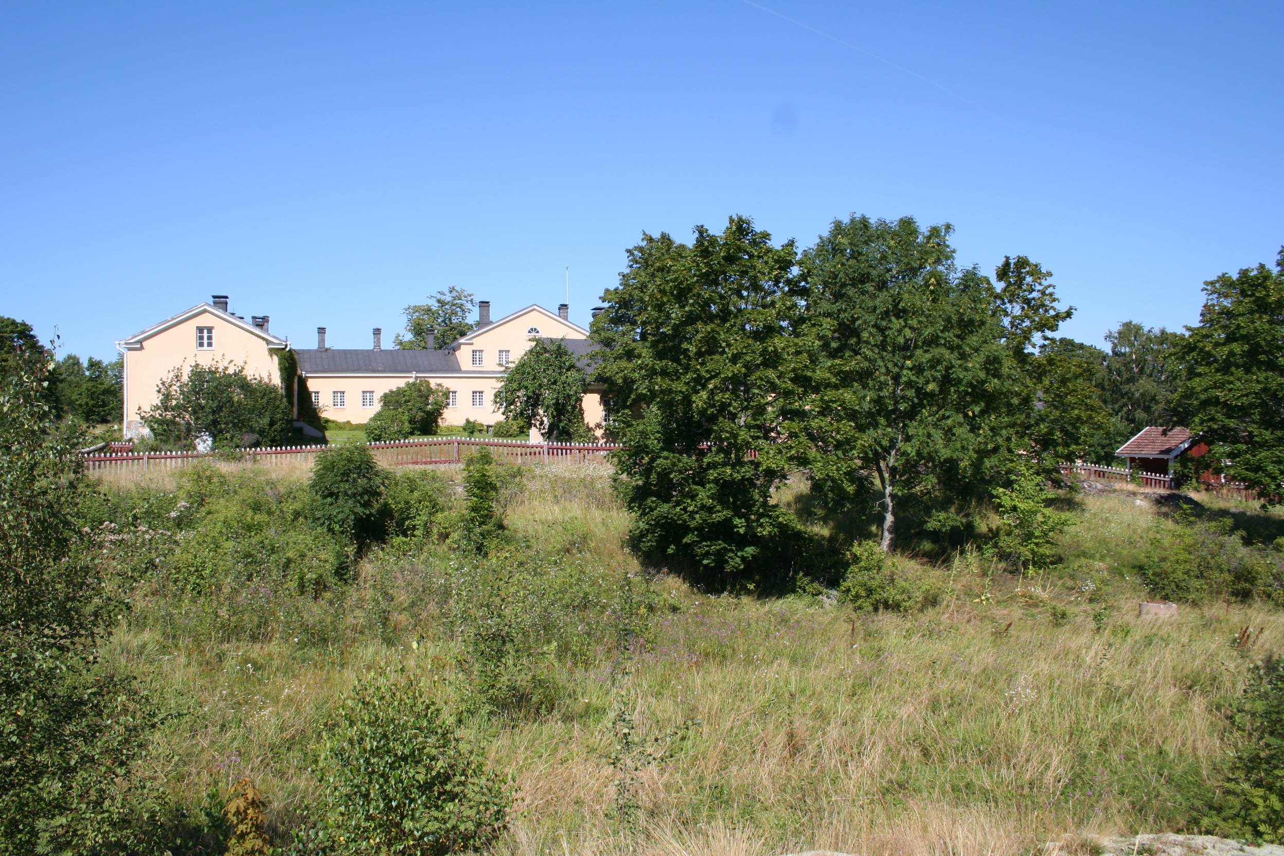 Former Sanitarium on Själö island in Nagu (now part of Pargas), Finland